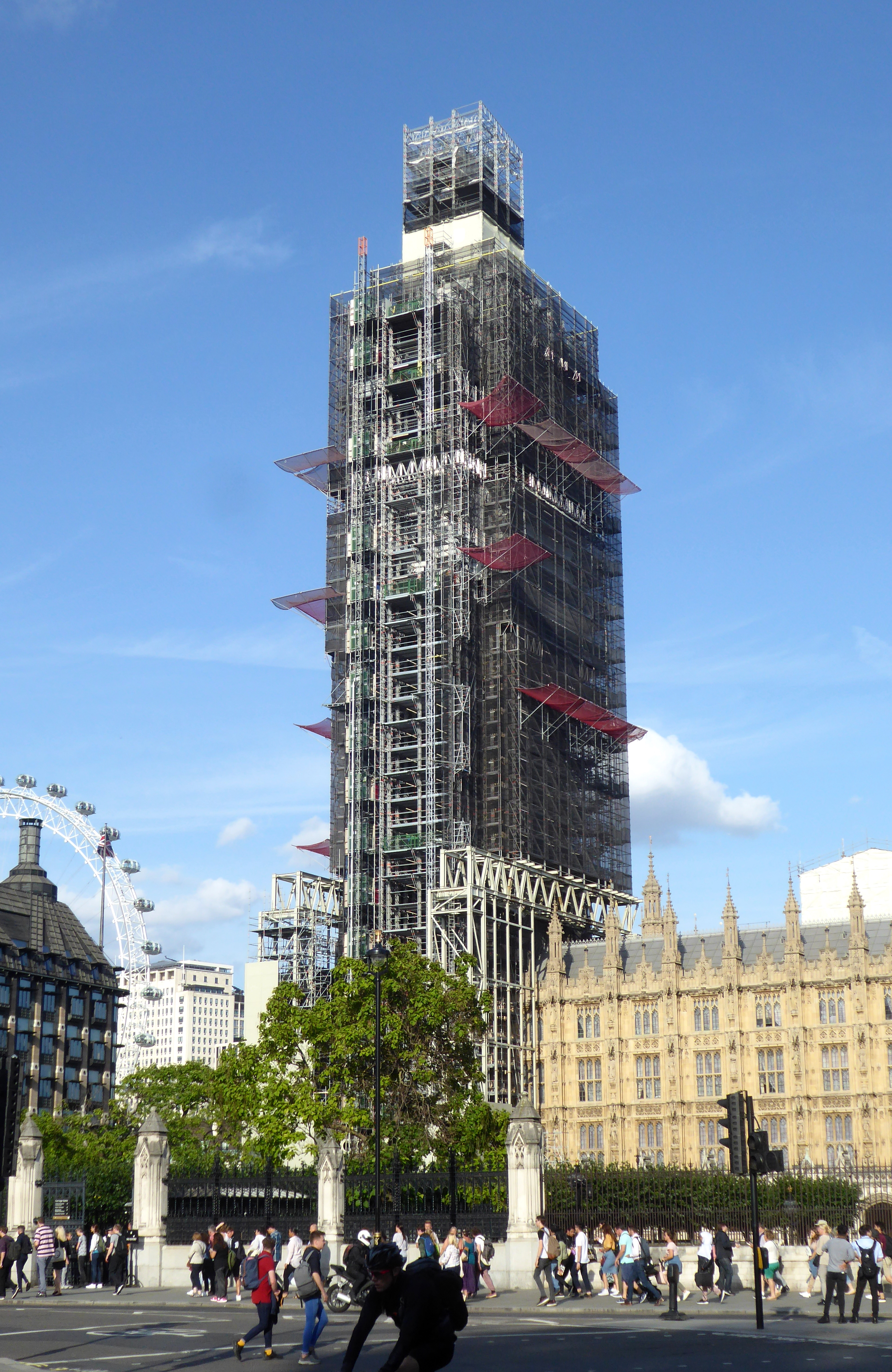 Big Ben (officially the Elizabeth Tower) in the Palace of Westminster covered in scaffolding as part of its renovation. As seen from Parliament Square.